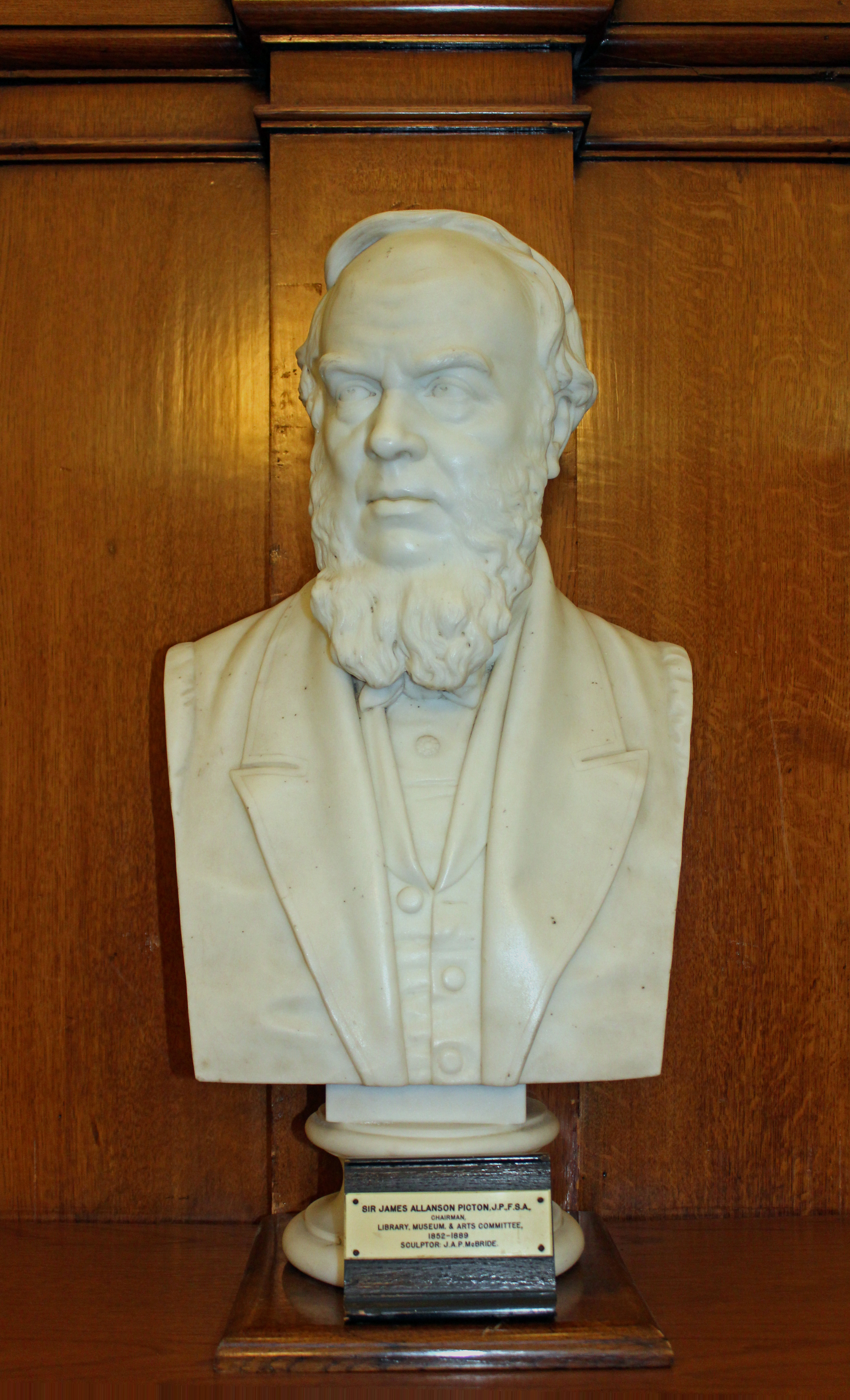 Bust of the eponymous James Allanson Picton to the north of the Picton Reading Room